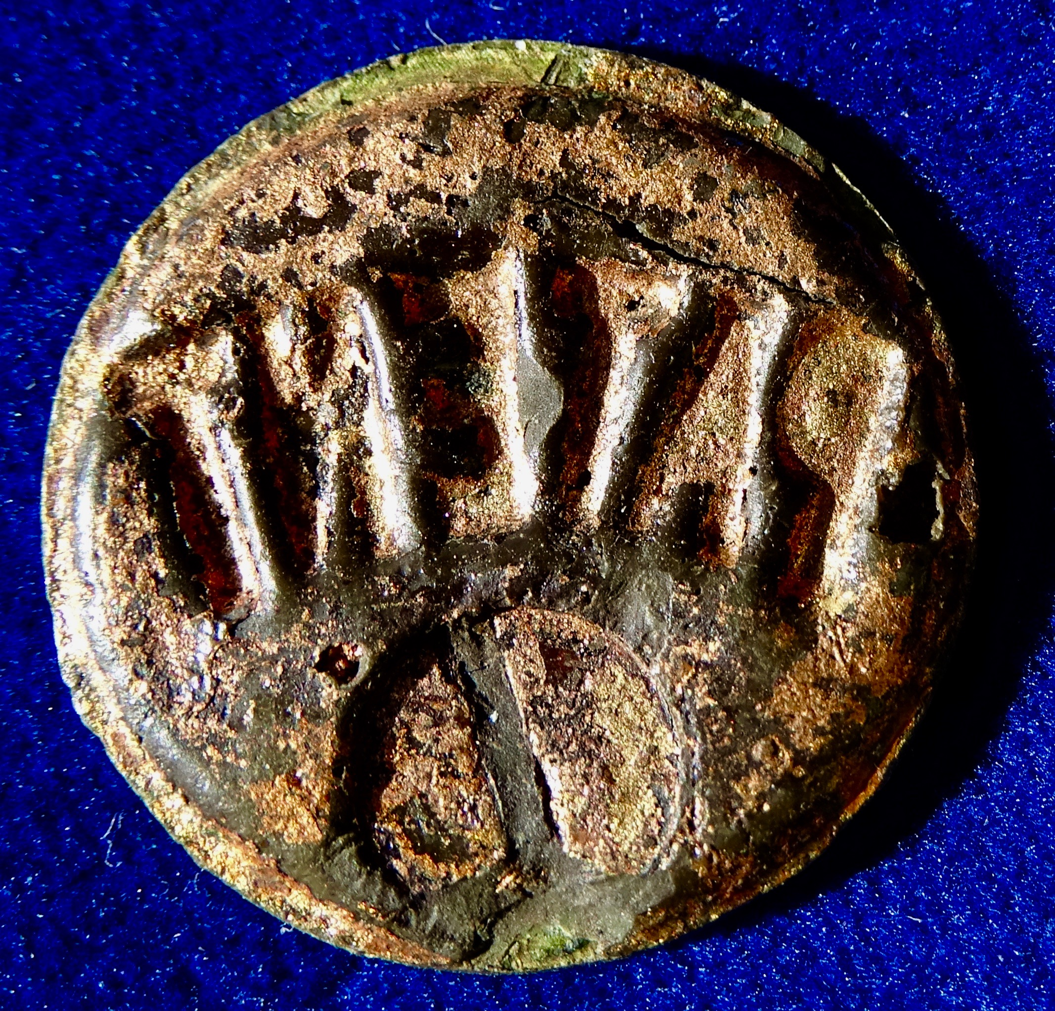 Reference mass of Josef Florenz, Vienna, scales and weights factory about 1900. Bronze, d. = 27 mm, 6.21 grammes. 3 lines: 3 lines: "J. FLORENZ WAAGEN u. GEWICHTE ROTENTURMSTR. 26"/ "PATENT" written backwards. Condition: VERY FINE.